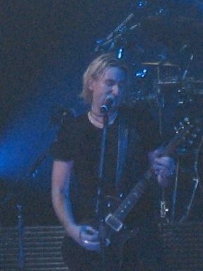 Chad Kroeger during the Nickelback concert in Dublin, Ireland on September 13, 2008